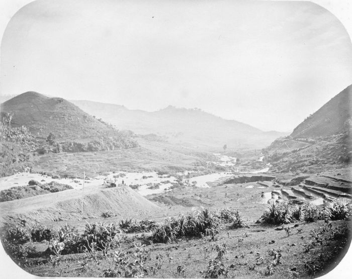 Construction of the railway from Kedoengdjati to William I through the valley of the Toentang